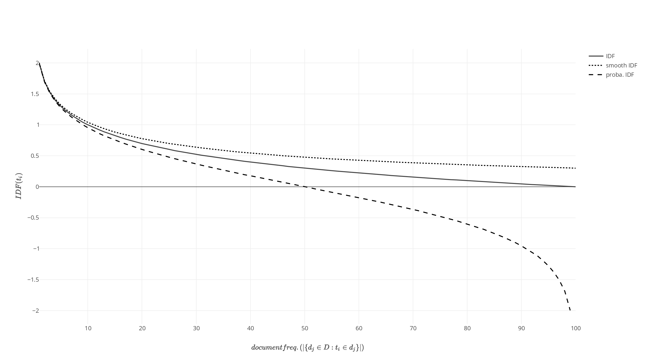 Some IDF functions ploted for a corpus of 100 documents